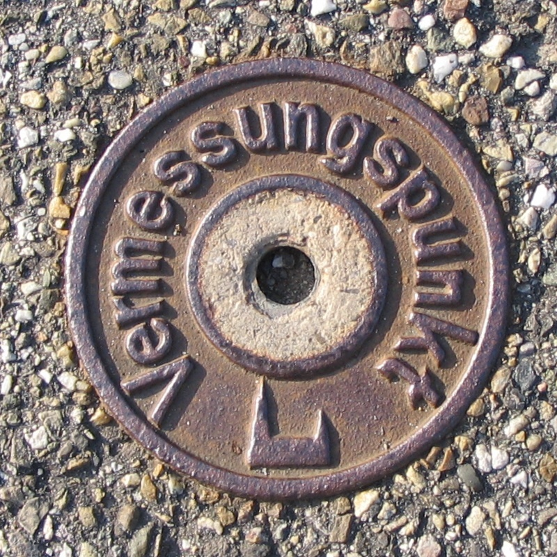 A trigonometric point in Tübingen, Germany.